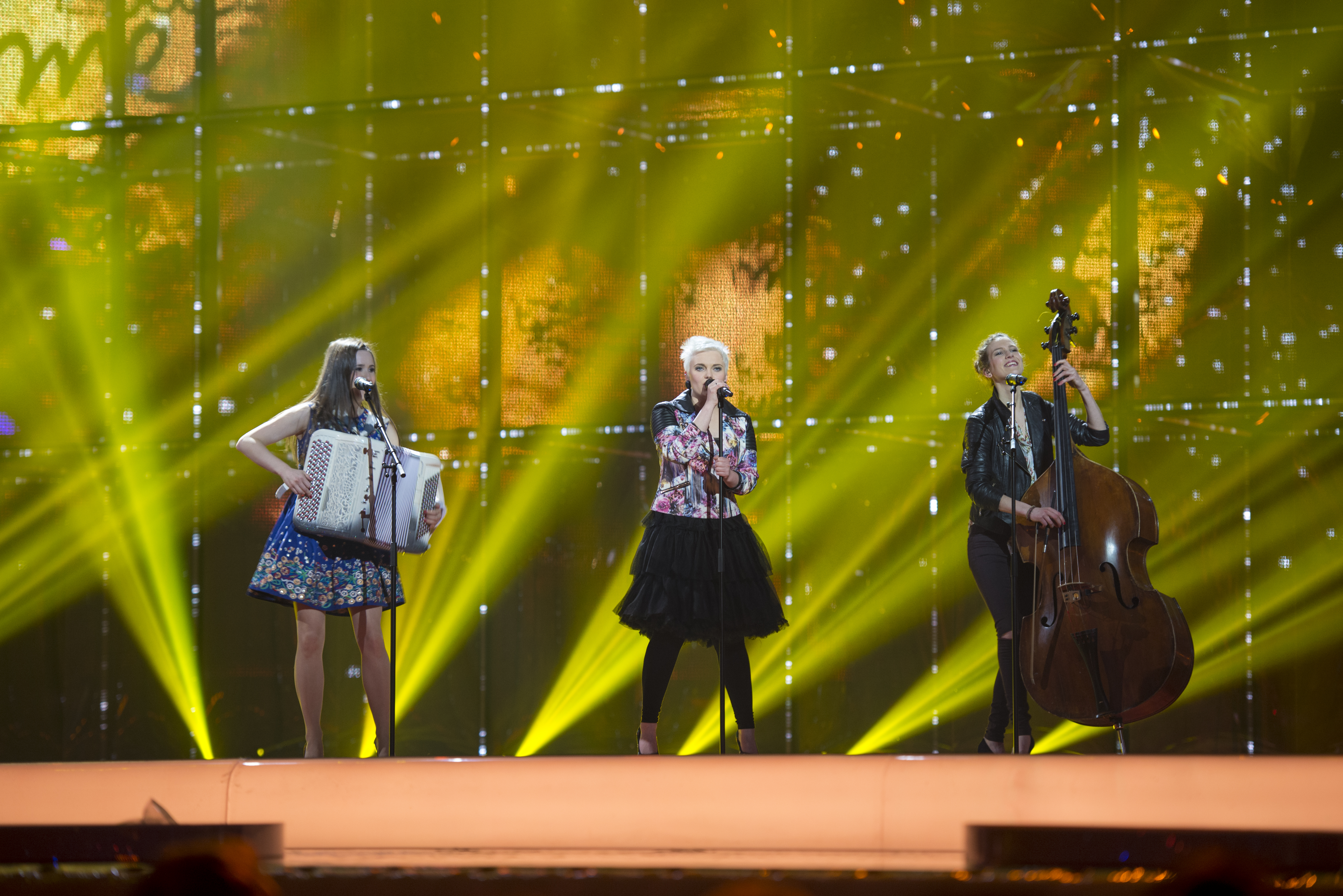 Elaiza representing Germany with the song "Is It Right" during the first dress rehearsal of the final of the Eurovision Song Contest 2014 Copenhagen. (Help translate this text)